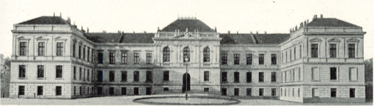 The medical university of Lemberg